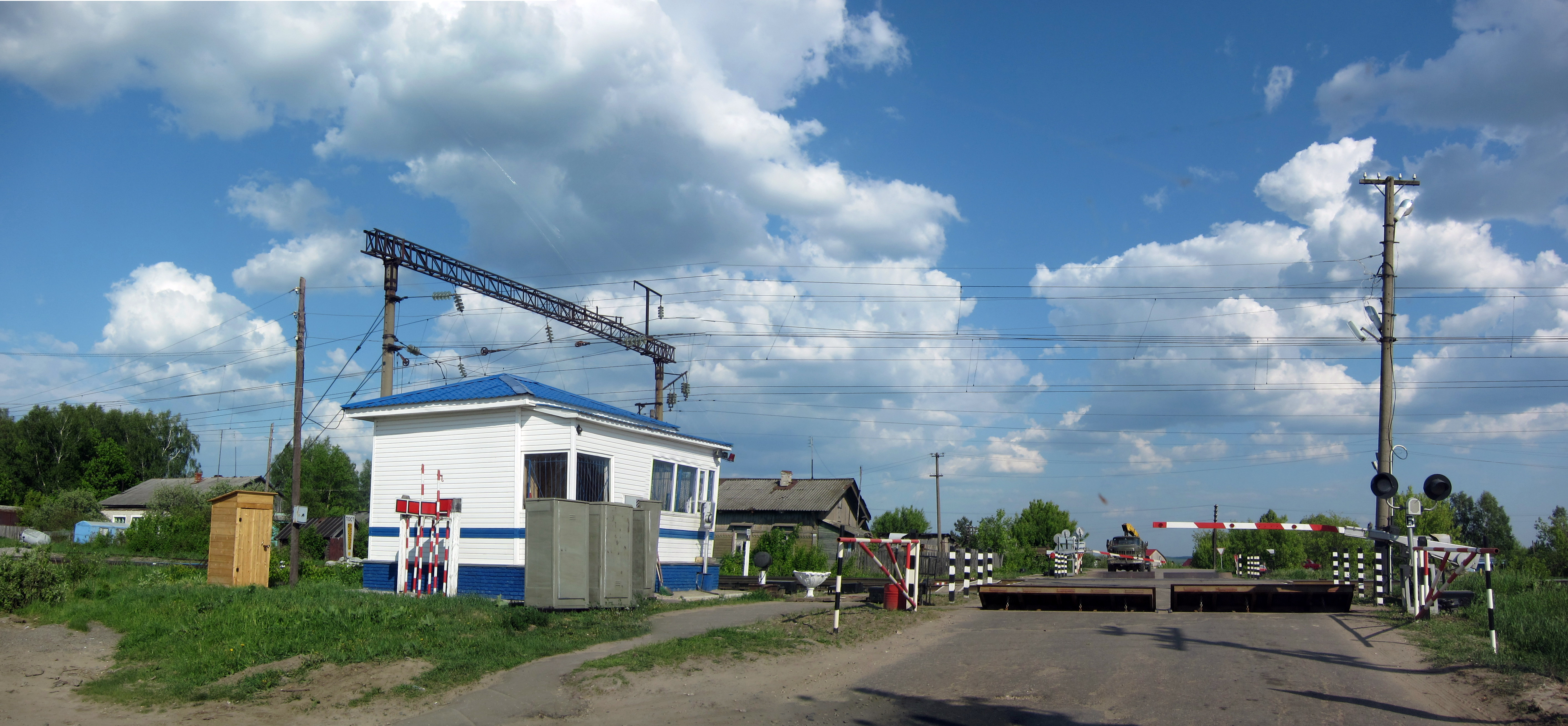 Level crossing in Surovatikha Station settlement, Nizhny Novgorod Oblast.